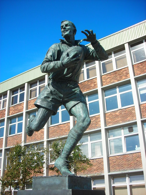 Willie Horne Legendary captain of Barrow Rugby League Club in the team's glory days in the 1950s, commemorated in front of College House at the northern end of Duke Street, in Hindpool close to Craven Park.